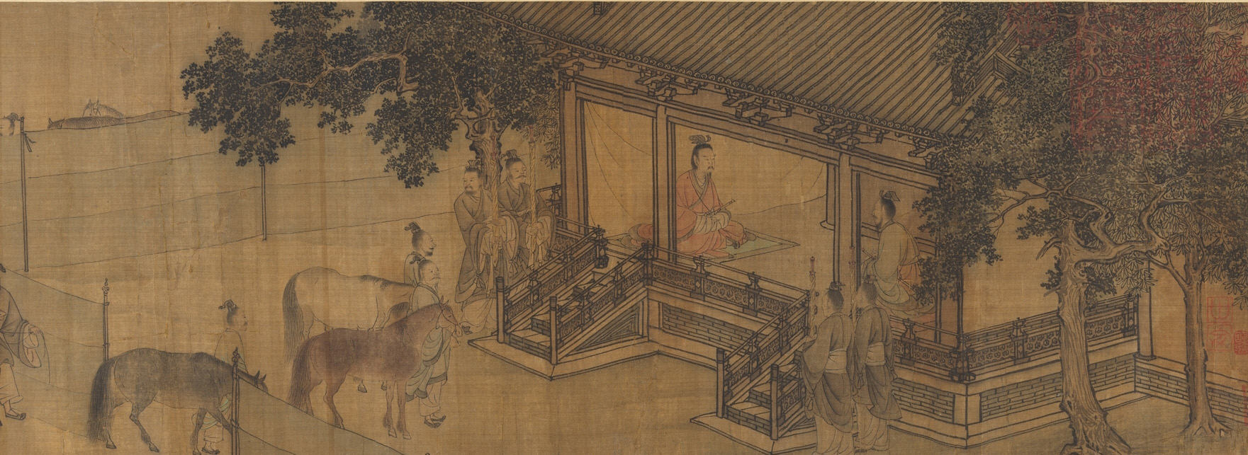 Song dynasty painting attributed to Li Tang. Shows the return of Chong'er from exile to the state of Jin. He became Duke Wen and reigned from 636 to 628 BC.